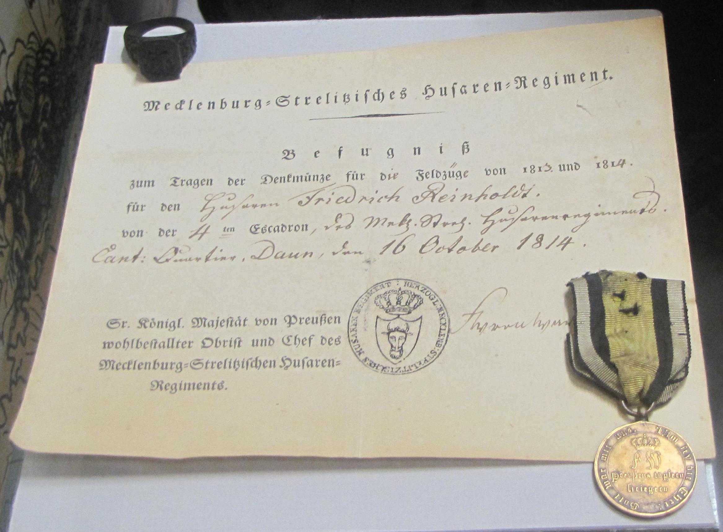 Prussian War Commemorative Medal for 1814 with certificate, signed by Ernst Friedrich Wilhelm von Warburg